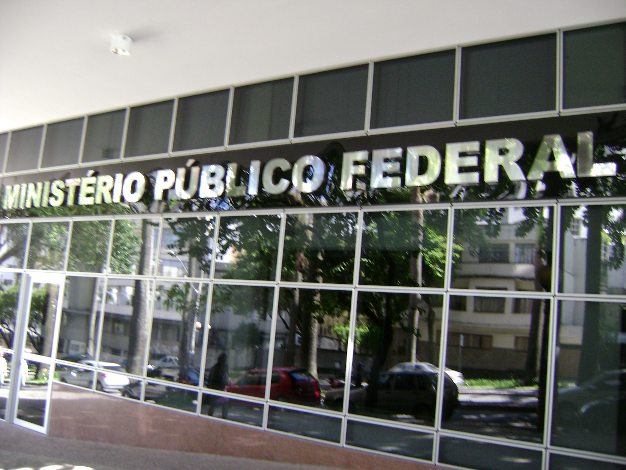 Ministério Público Federal, em Belo Horizonte